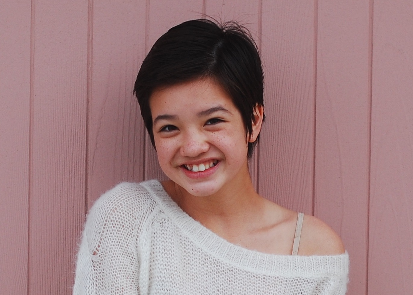 Peyton Elizabeth Lee in 2017 (photo by Ella Margaret Lee).